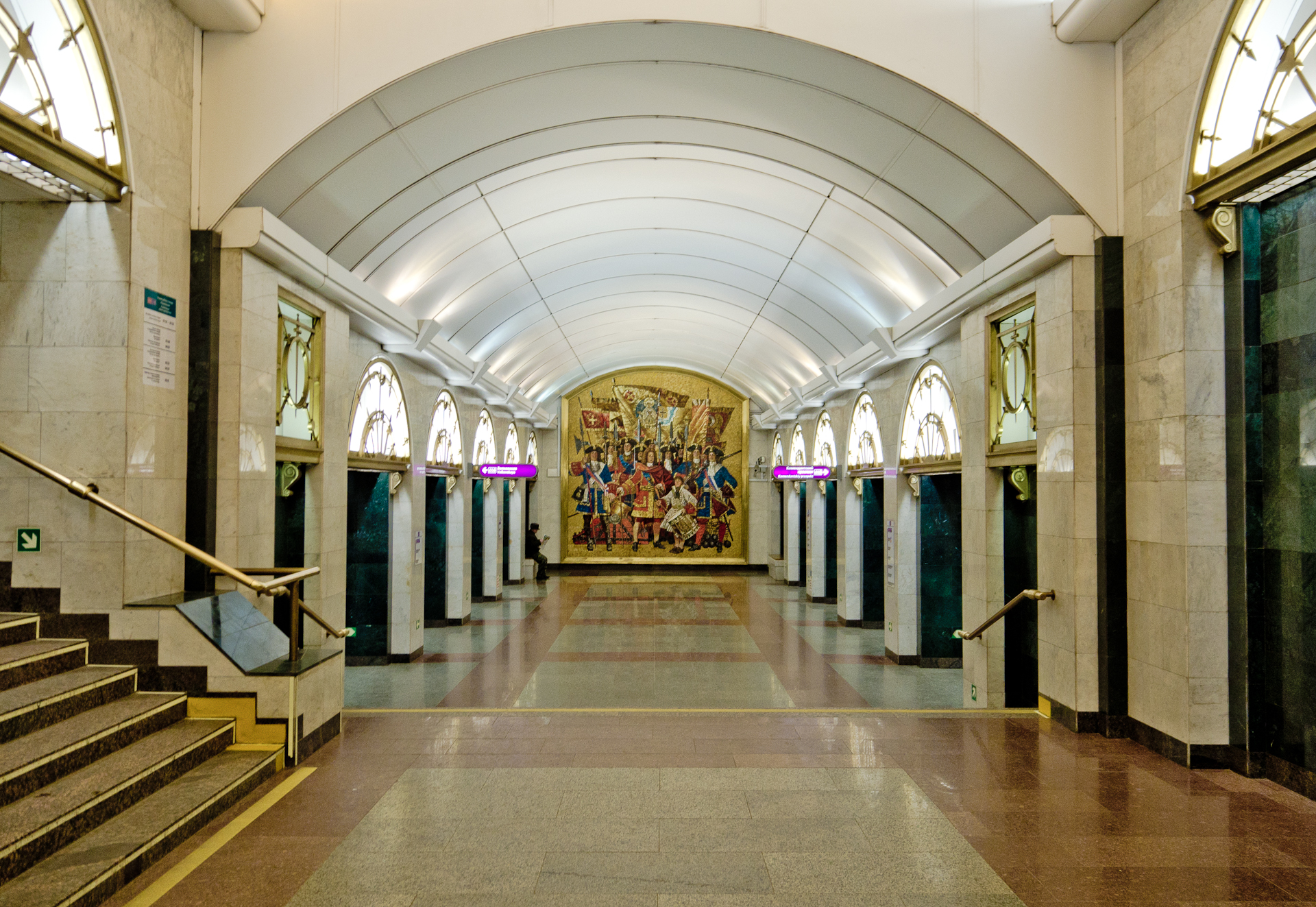 Zvenigorodskaya subway station in Saint Petersburg, 2011